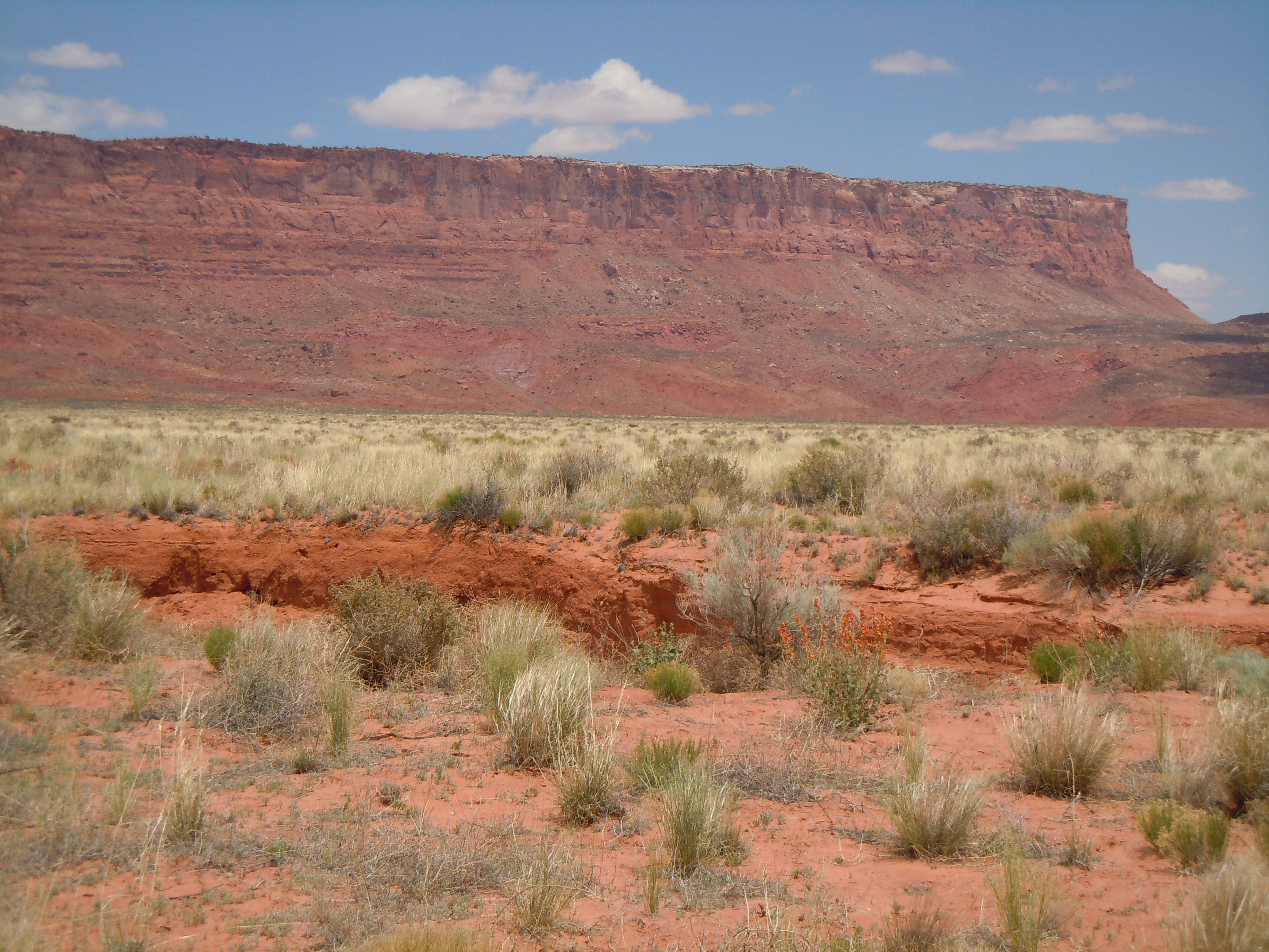 Whatever the disturbance history behind this open dry vegetation, it now seems to be dominated by few bunchgrass species.